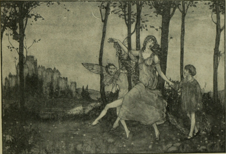 Black and white reproduction of Come Away Oh Human Child by Agnes Tait from the 1916 New York Watercolor Club Exhibition catalog